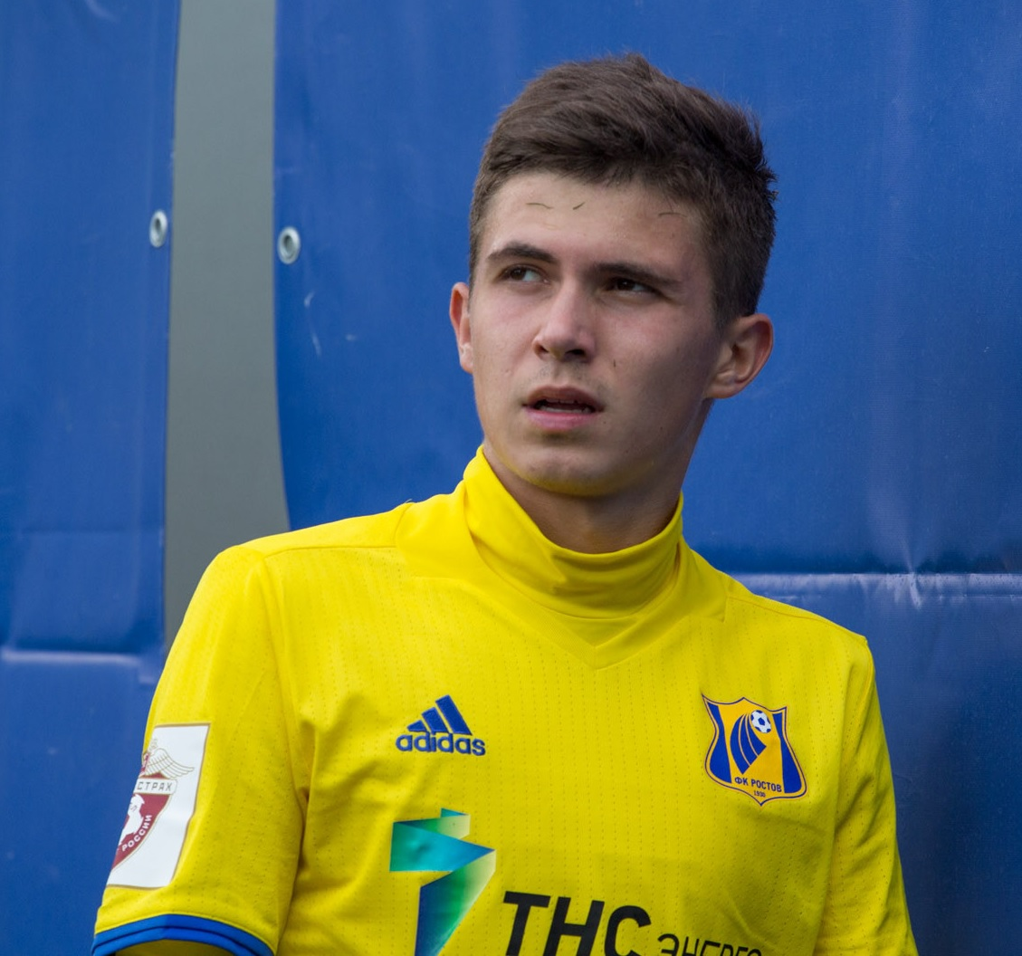 Filipp Kondryukov with FC Rostov in a game against FC Dynamo Moscow.